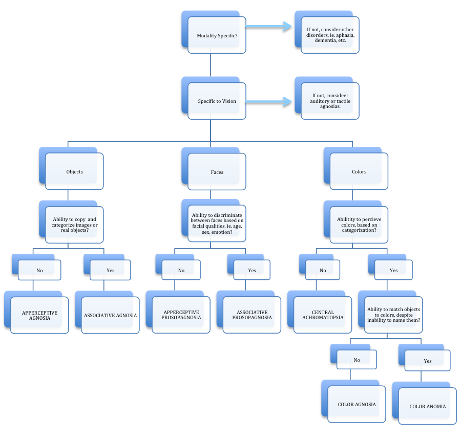 Clinical Assessment Criteria in Flowchart Form for Types of Visual Agnosia